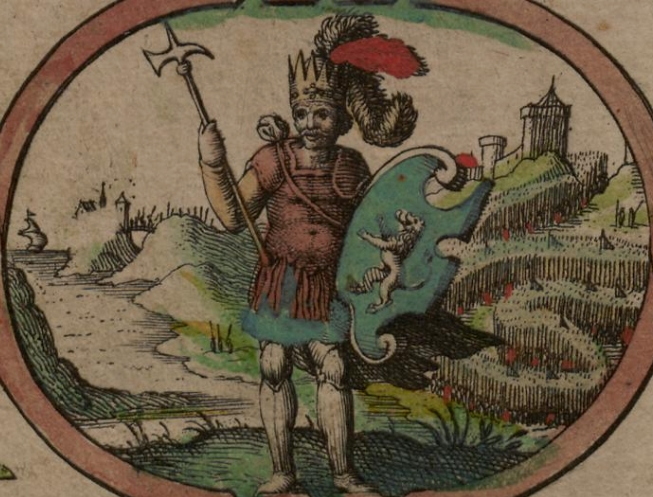 Ida of Bernicia